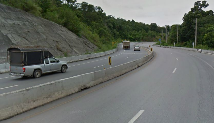 Highway#210 Udon Thani - Nong Bua Lamphu